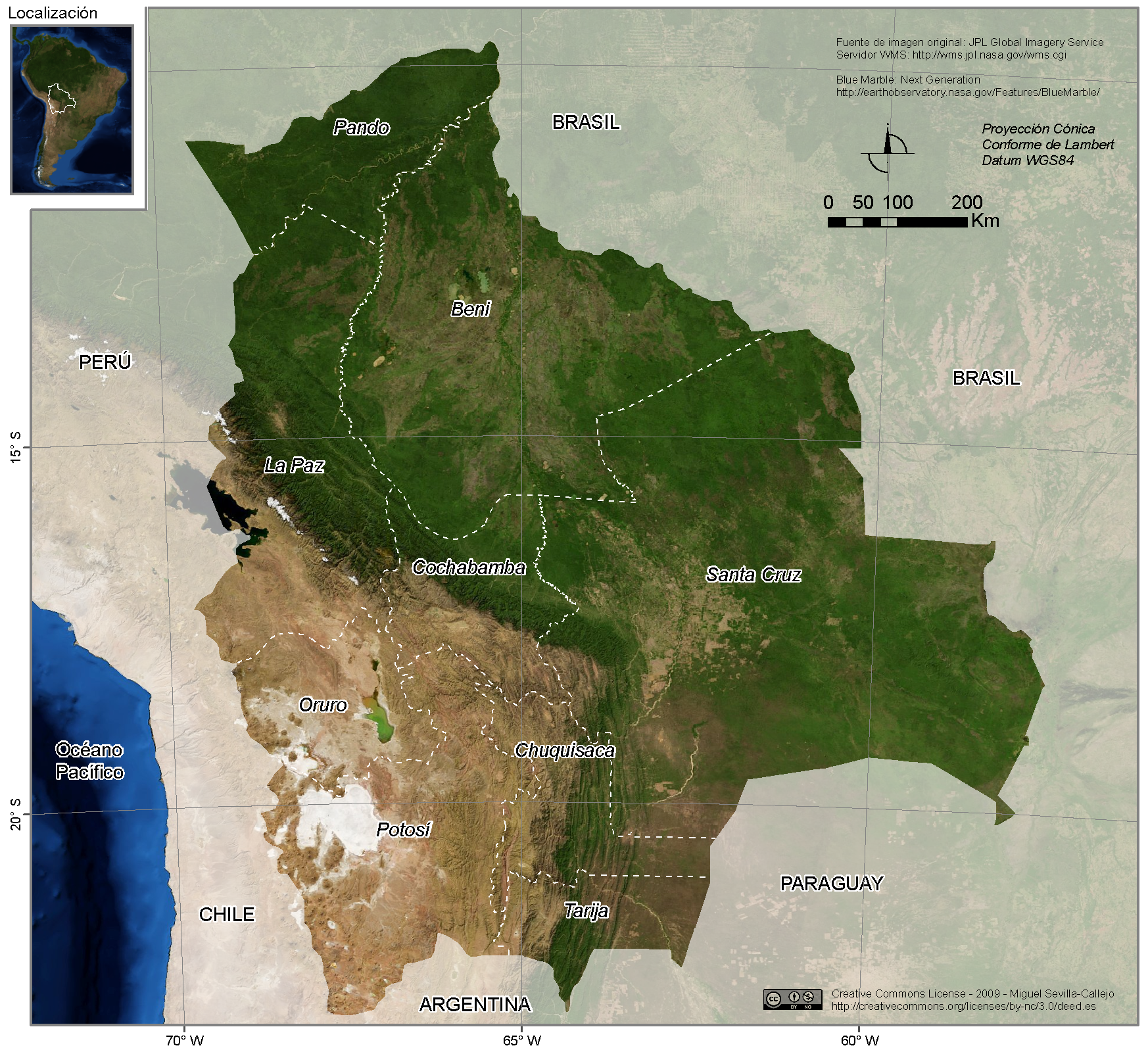 Satellite image of Bolivia